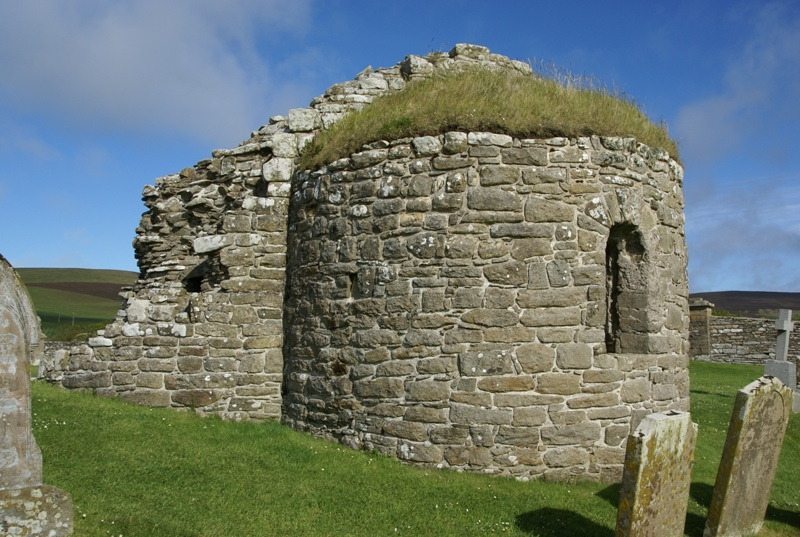 Orphir Church, Orphir, Mainland, Orkney, Scotland. View from south east.